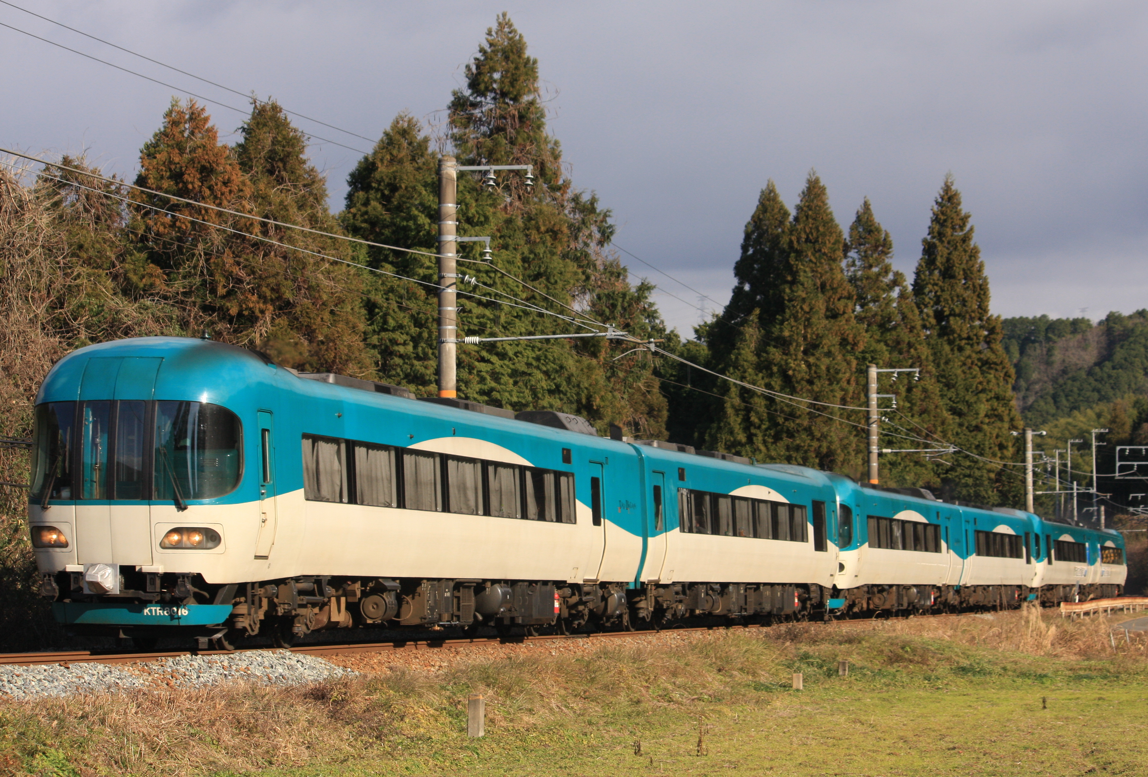 Kitakinki Tango Railway KTR 8000 DMU for the limited express Maizuru/Hashidate service on the San'in Main Line between Ayabe and Yamaga